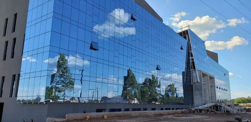 Universidad del Pacífico in Pedro Juan Caballero, the largest university in the city.